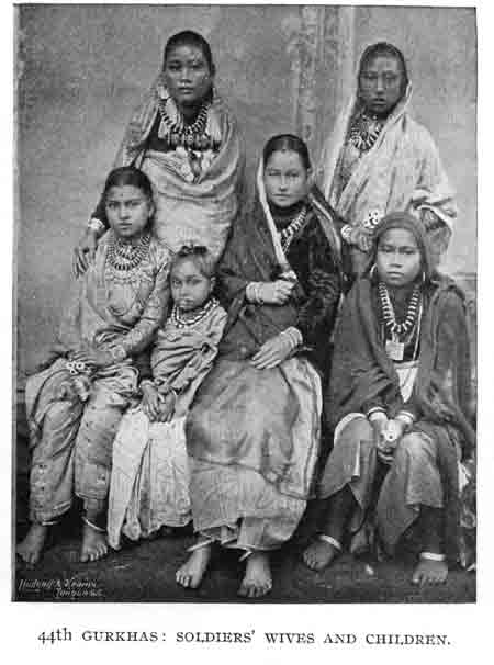 44th Gurkhas: soldiers' wives and children